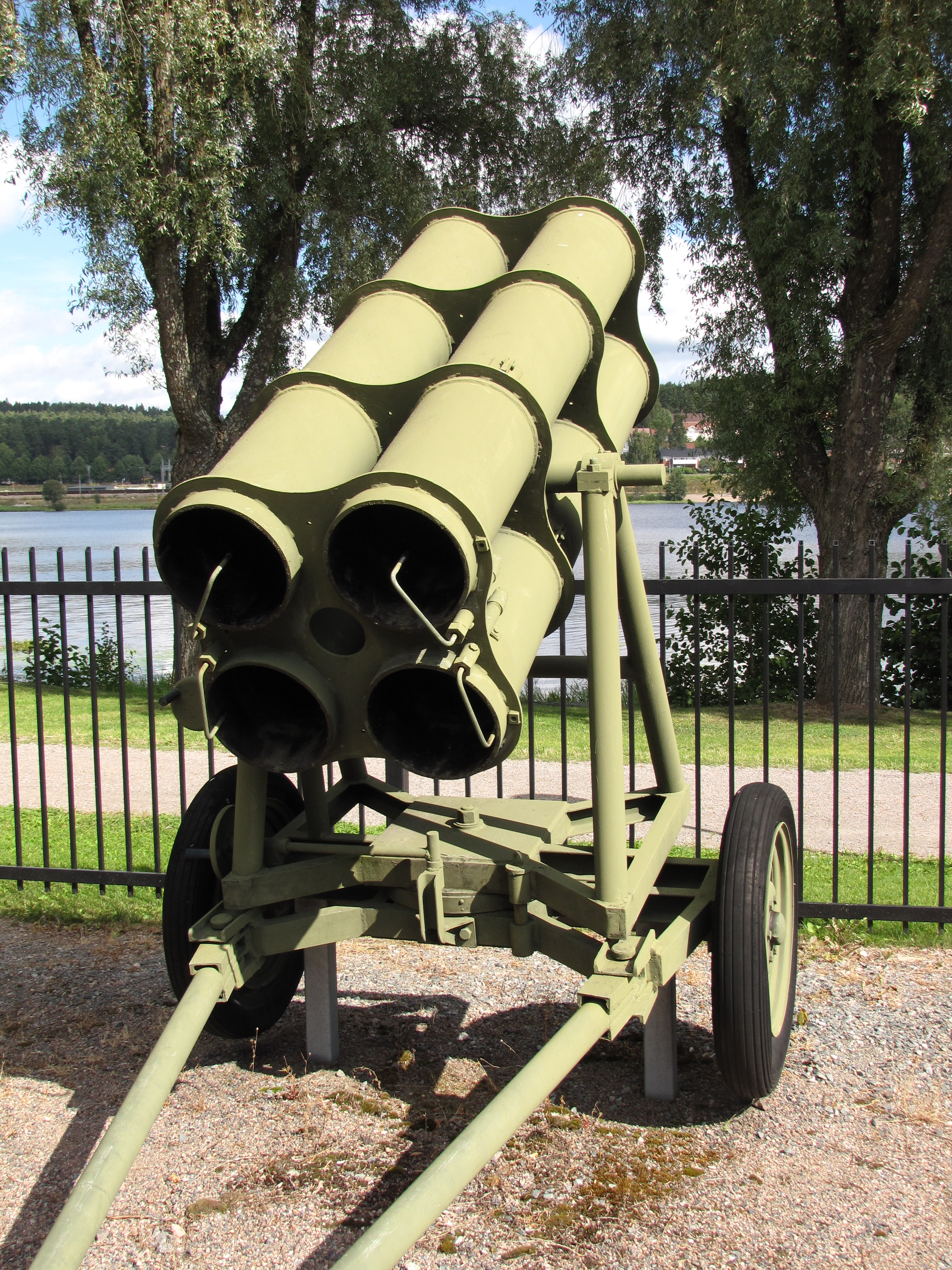 Finnish 280 mm rocket launcher model 1944 in Hämeenlinna artillery museum. Accepted for production in late 1944, but the end of the war cancelled the project.